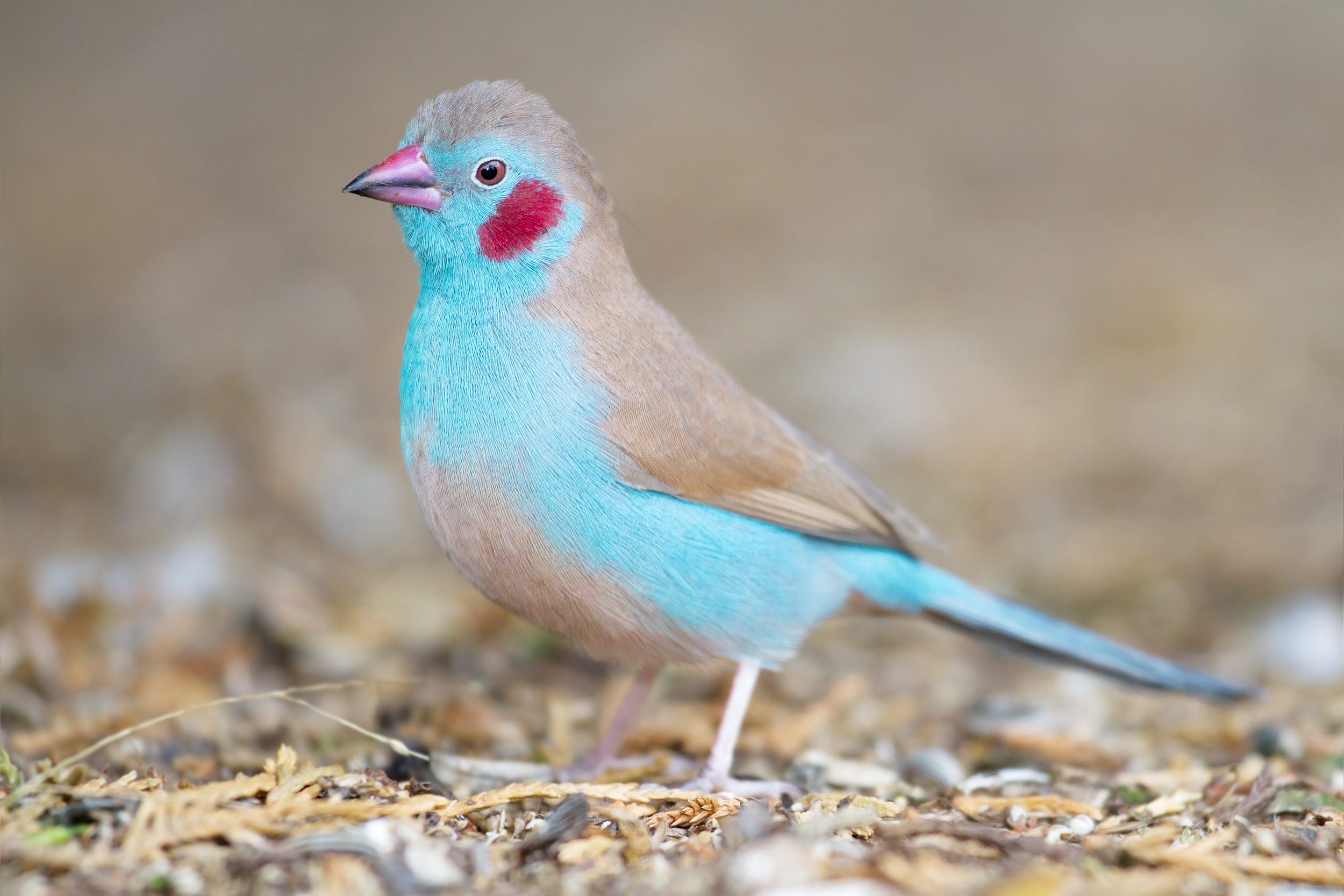 Red-cheeked Cordon-bleu (Uraeginthus bengalus), Bird Walk Aviary, Canberra, Australia